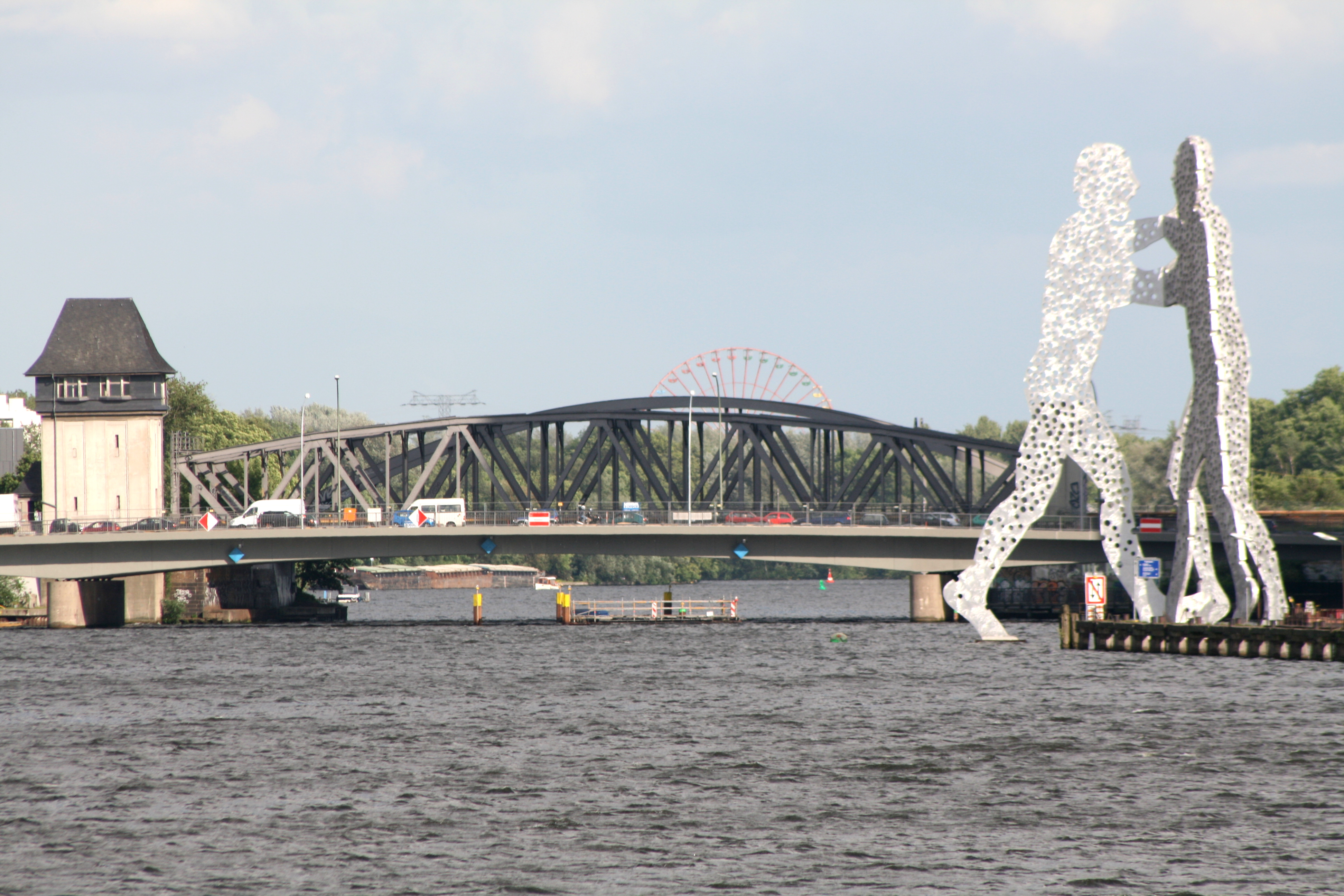 Elsenbrücke and Molecule Man in Berlin: Spree-River between Berlin-Treptow and Berlin-Friedrichshain